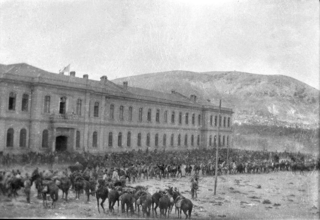 AWM caption : THE SCENE AT THE TURKISH HOSPITAL AT DAMASCUS IN 1918, SHORTLY AFTER THE ENTRY OF THE 4TH ALH REGIMENT. THE PICTURE SHOWS THE AUSTRALIANS ROUNDING UP THE 10,000 PRISONERS CAPTURED HERE. ONE OF THE FIGURES IN THE CENTRE IS COLONEL BOURCHIER.